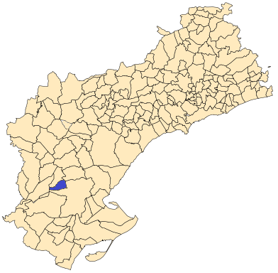 Aldover